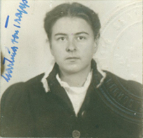 Martina von Trapp from her naturalization application